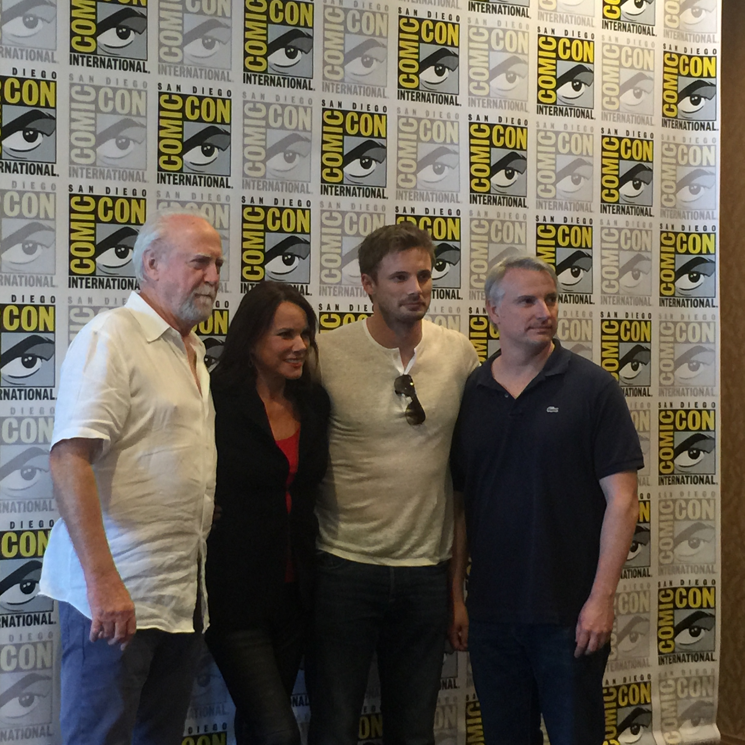 Scott Wilson, Barbara Hershey, Bradley James and Glen Mazzara at 2015 Comic-Con International